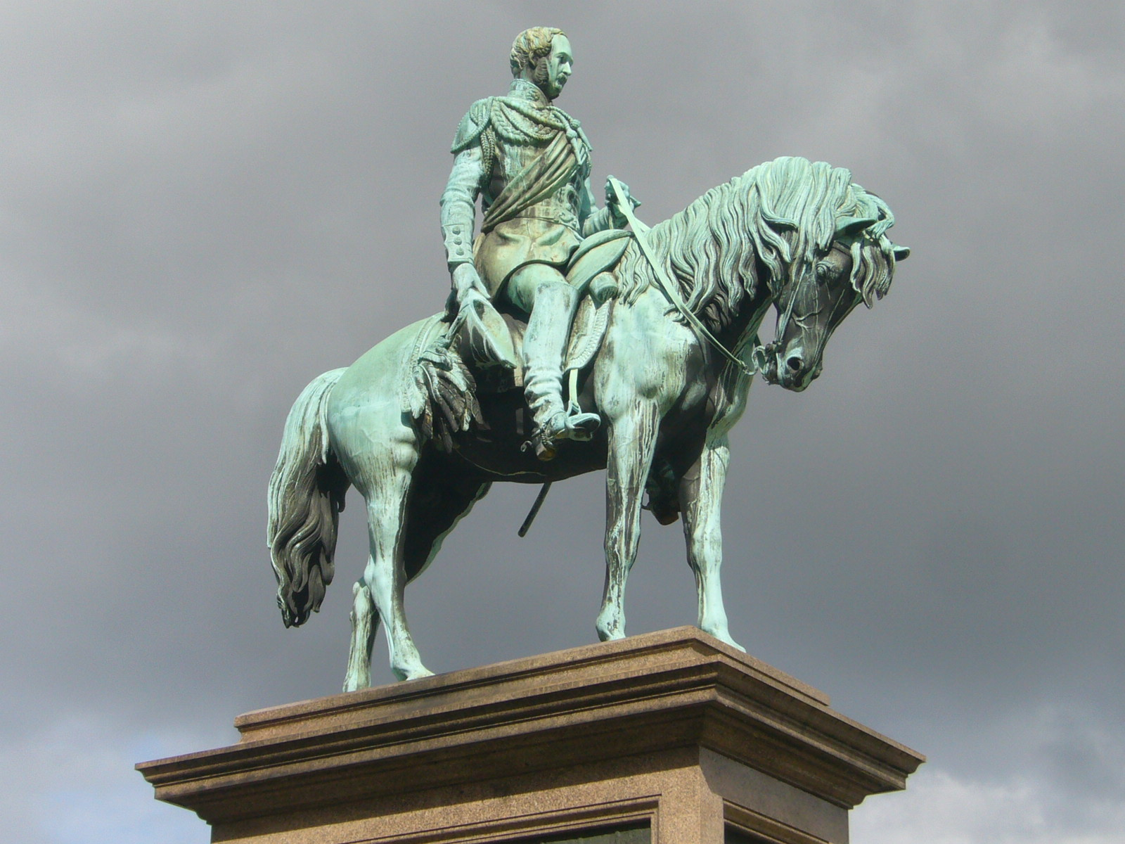 Prince Albert Memorial statue, Charlotte Square, Edinburgh